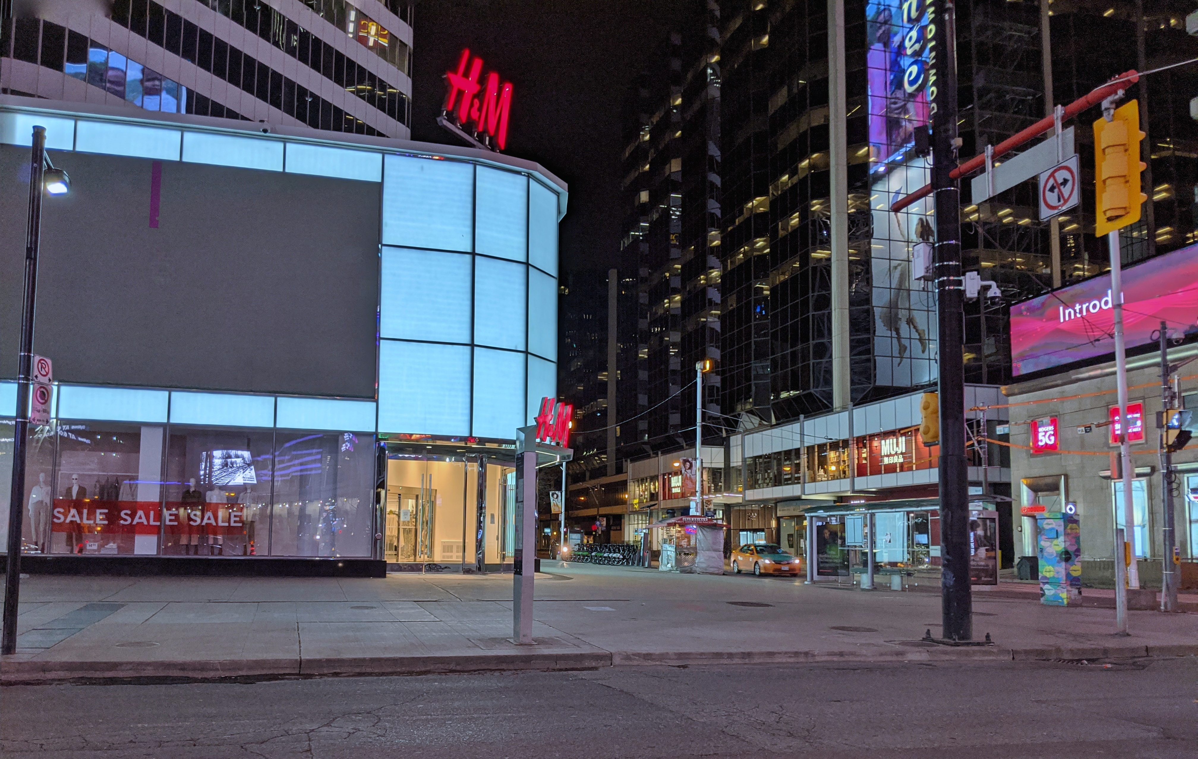 Yonge-Dundas Square during the COVID-19 pandemic